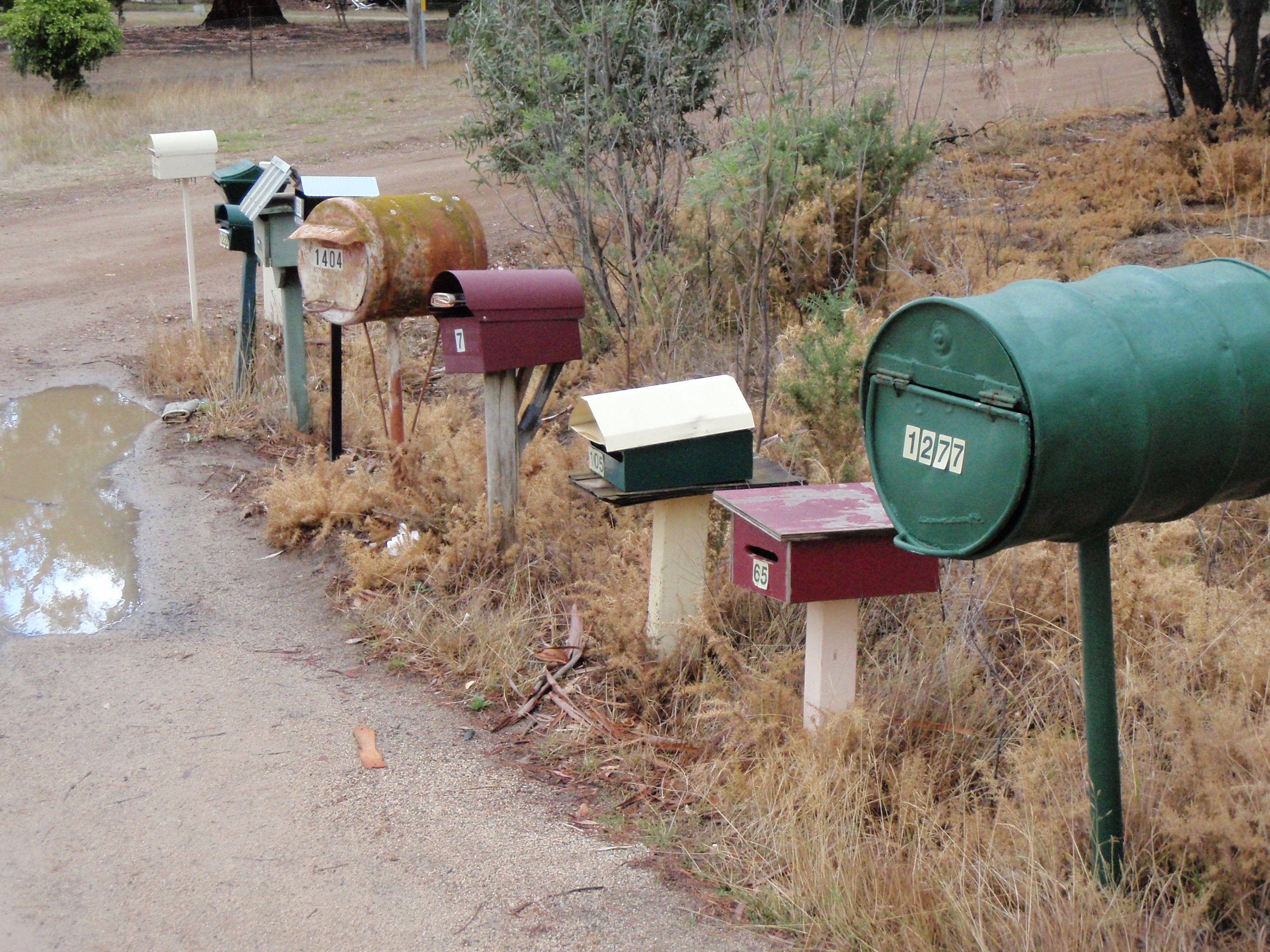 Roadside post boxes in Cobaw, Victoria